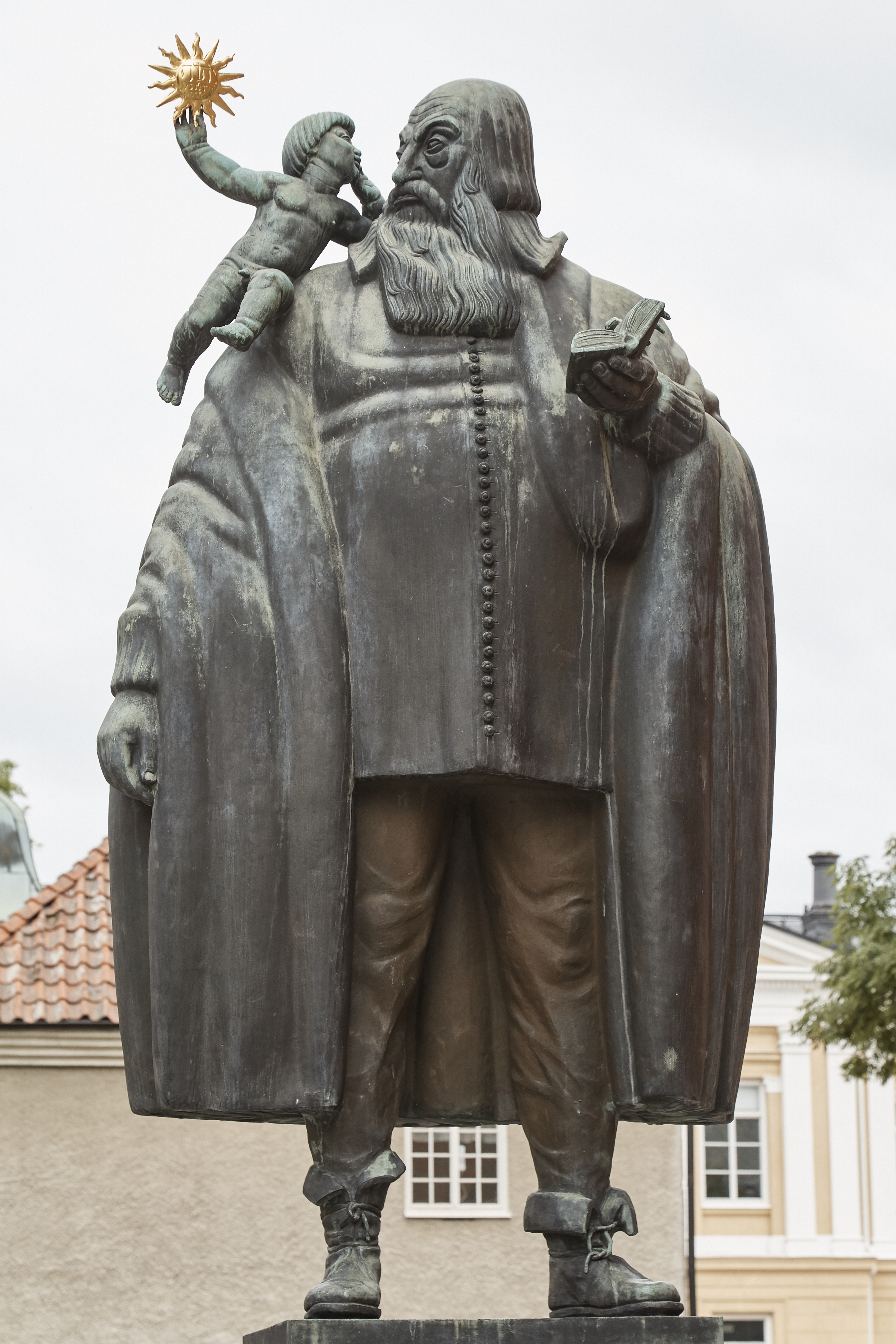 Johannes Rudbeckius